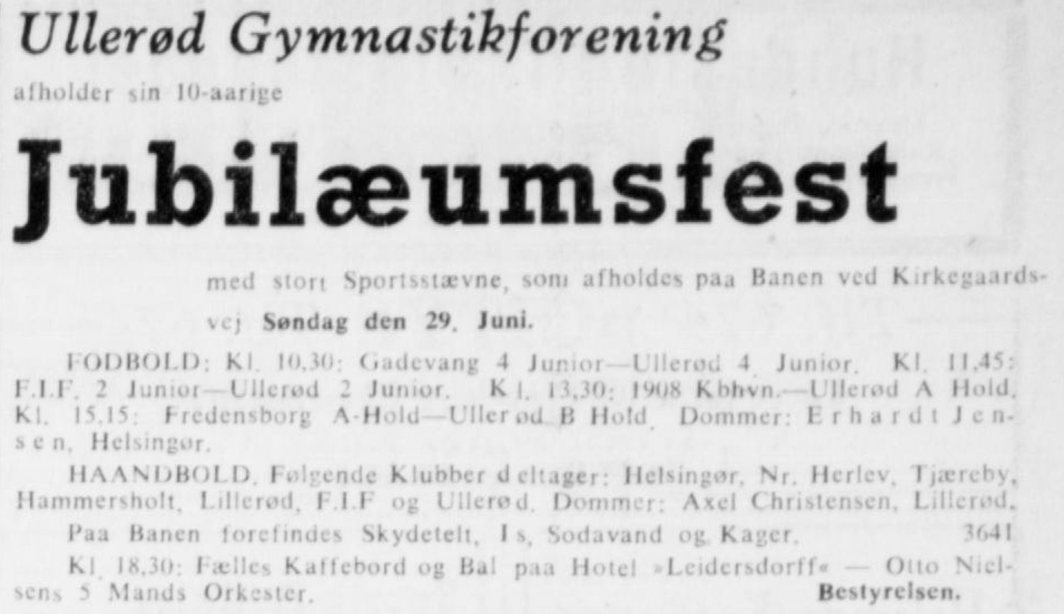 Advertisement for the 10 years anniversary event for the Ullerød Gymnastikforening - Ullerød Gymnastikforening : afholder sin 10-aarige Jubilæumsfest : med stort Sportsstævne, som afholdes paa Banen ved Kirkegaards- : vej Søndag den 29. Juni. : FODBOLD: Kl. 10,30: Gadevang 4 Junior-Ullerød 4 Junior. Kl. 11,45: F.I.F. 2 Junior-Ullerød 2 Junior. Kl. 13,30: 1908 Kbhvn.-Ullerød A Hold. Kl. 15,15: Fredensborg A-Hold-Ullerød B Hold. Dommer: Erhardt Jensen, Helsingør. : HAANDBOLD. Følgende Klubber deltager: Helsingør, Nr. Herlev, Tjæreby, Hammersholt, Lillerød, F.I.F. og Ullerød. Dommer: Axel Christensen, Lillerød. : Paa Banen forefindes Skydefelt, Is, Sodavand og Kager. 3641 : Kl. 18,30: Fælles Kaffebord og Bal paa Hotel »Leidersdorff« - Otto Nielsens 5 Mands Orkester. Bestyrelsen.